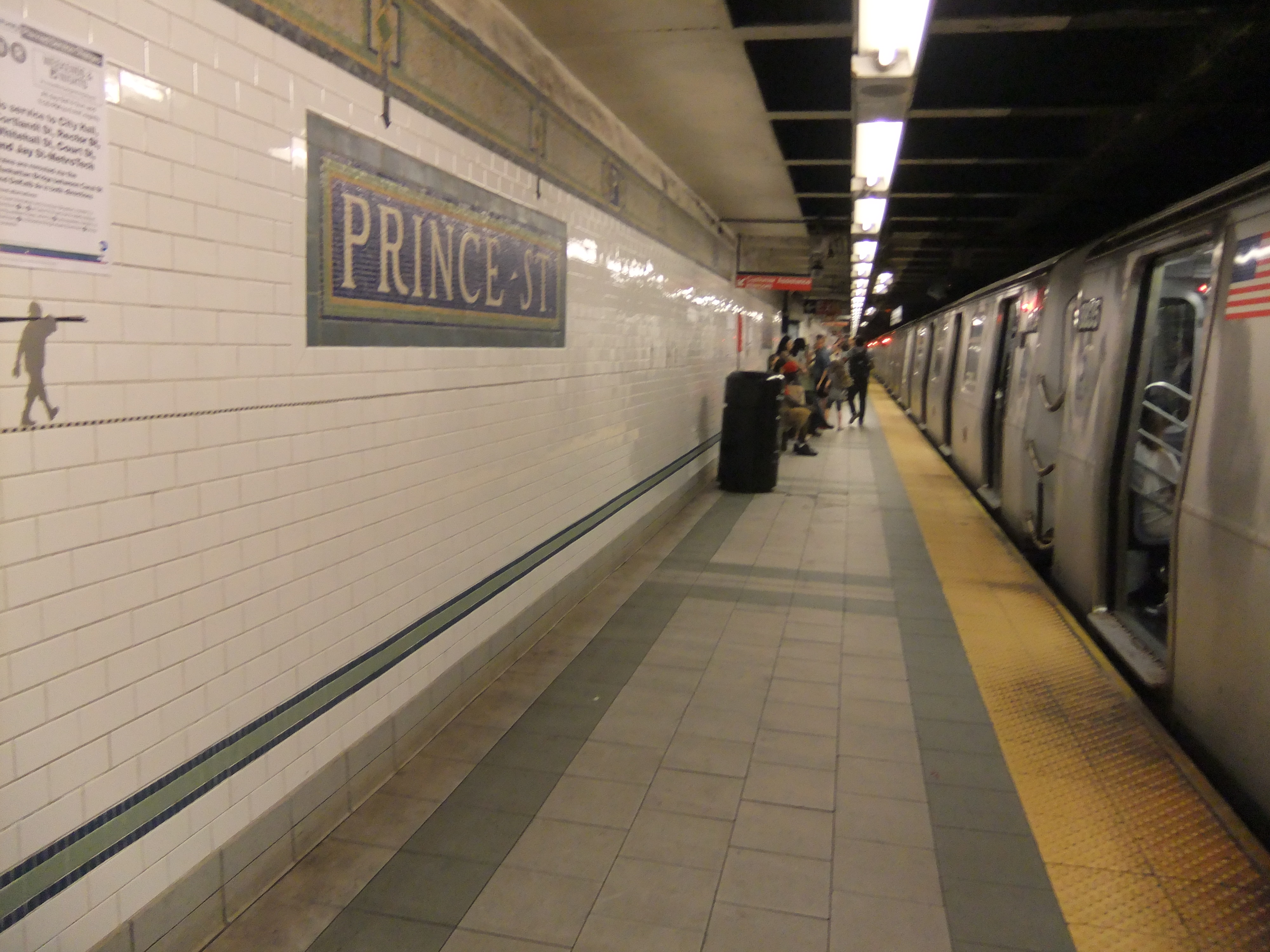 Brooklyn bound platform at Prince Street.